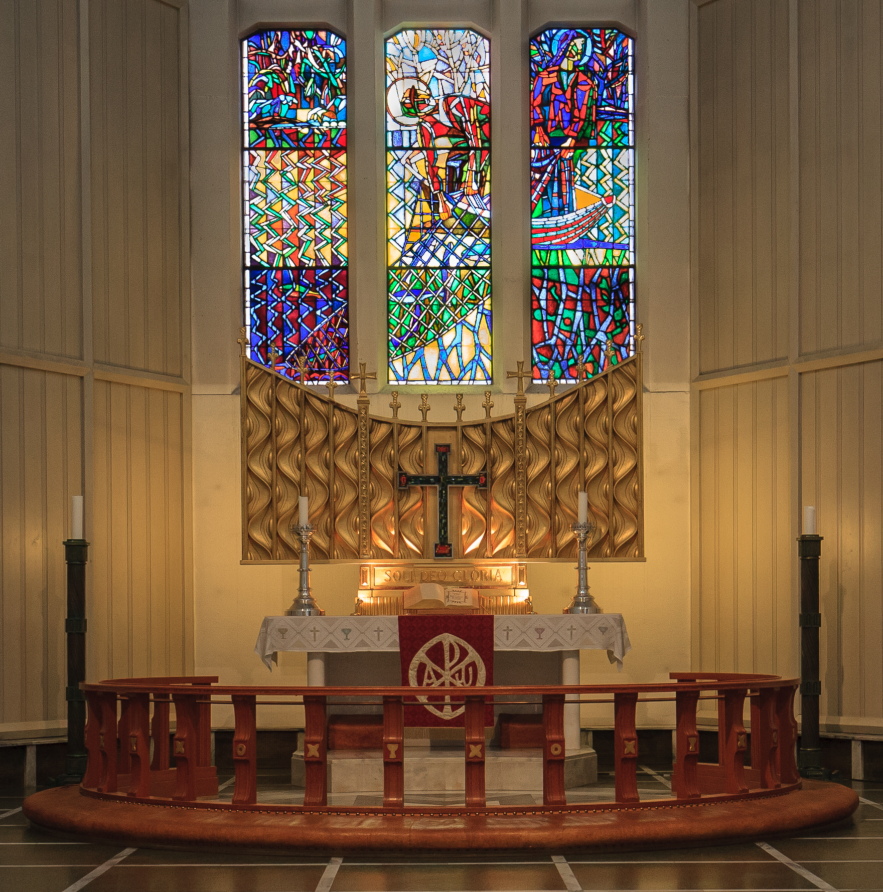 Altar of the cathedral of Bodø with glas paintings of Aage Storstein and Borgar Hauglid